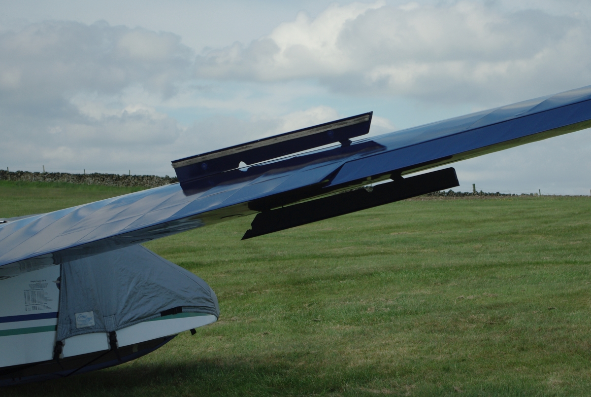 Schempp-Hirth airbrakes on Slingsby Capstan EGA1237/A23